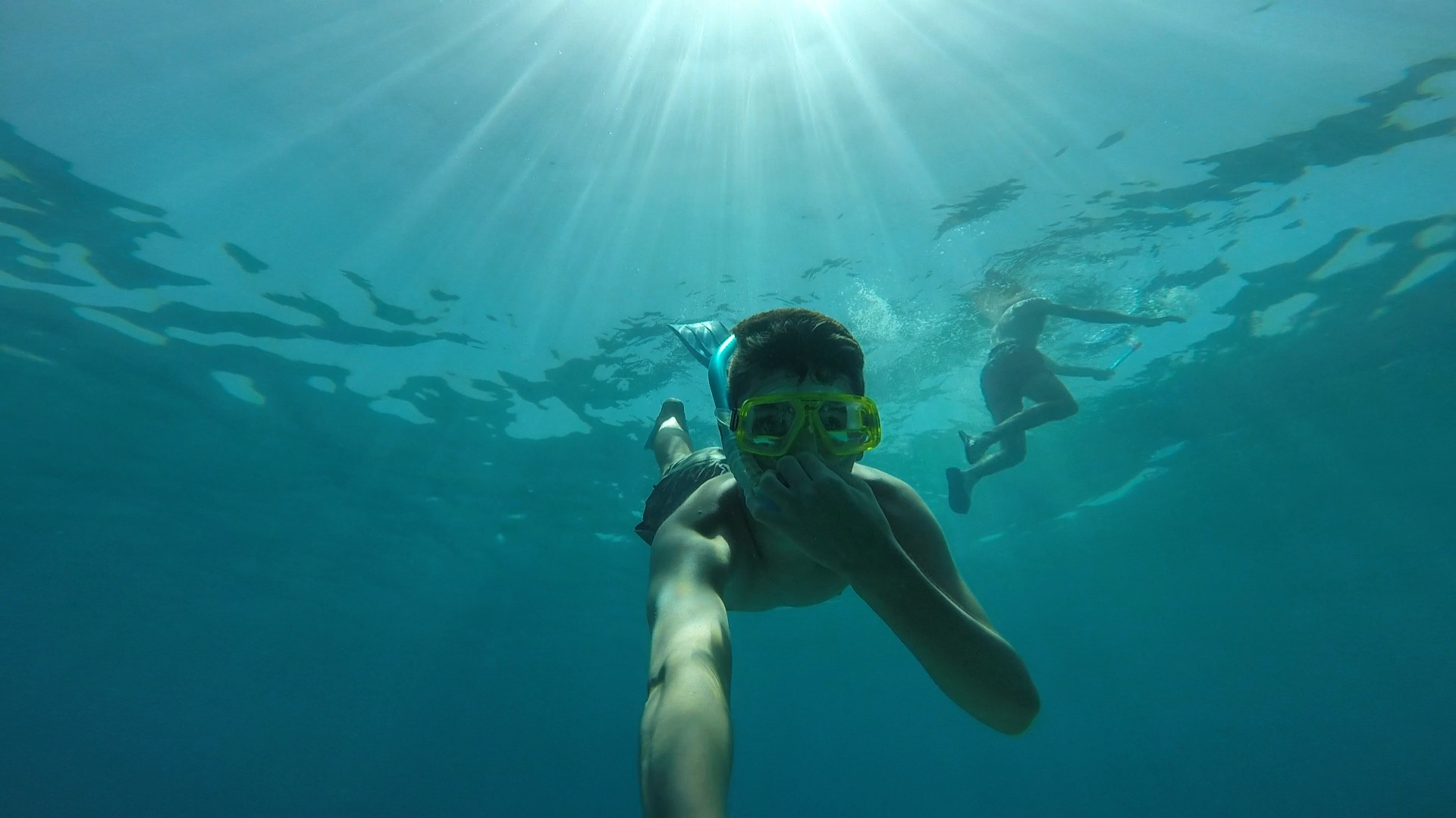 freediving in eilat, israel